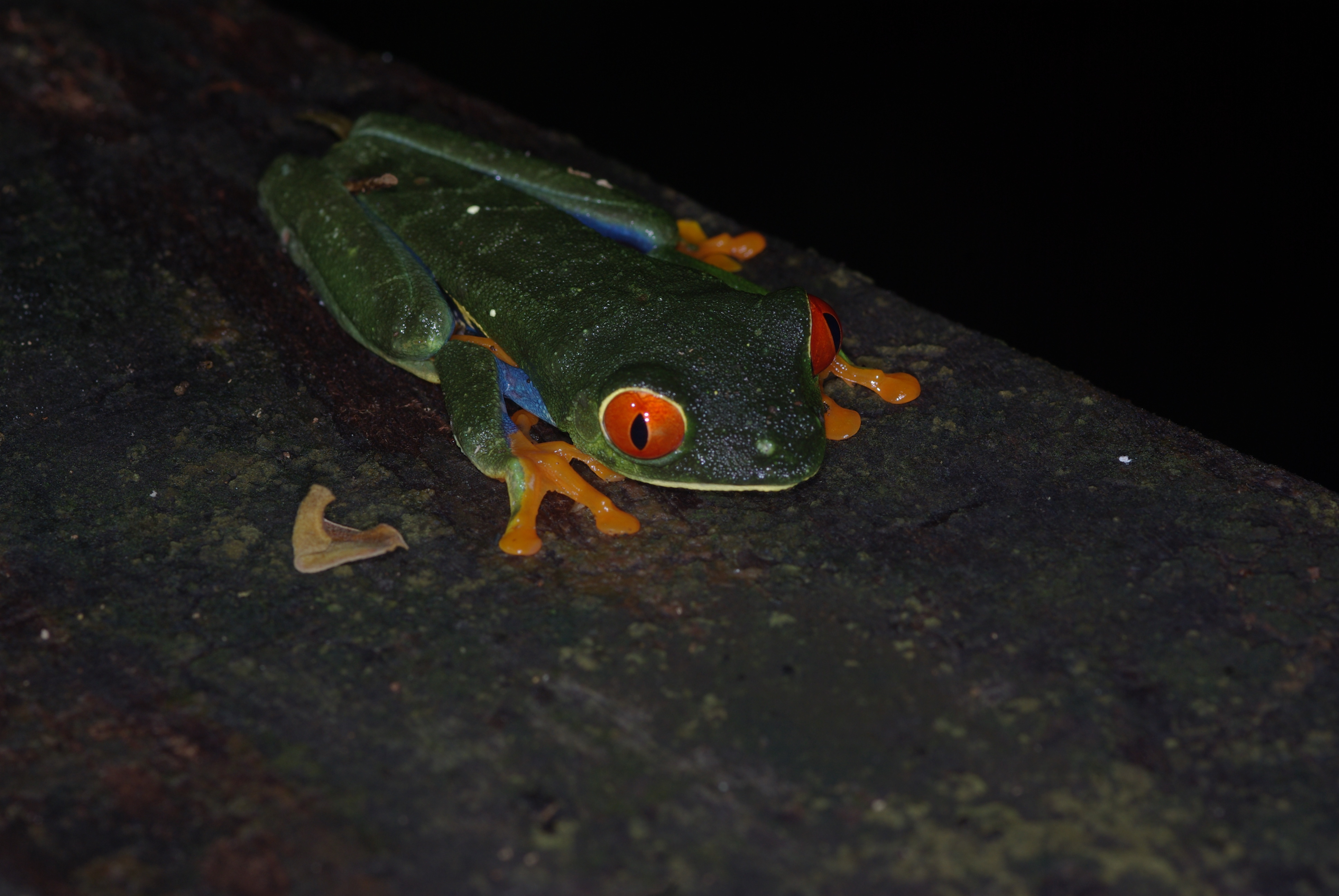 Red-eyed tree frog (Agalychnis callidryas) at night. Biological station La Selva, Costa Rica, December 2011